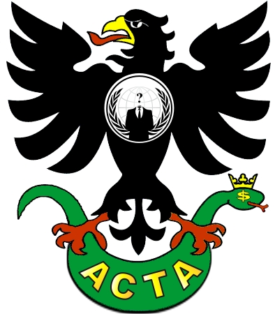 Anonymous vs. ACTA